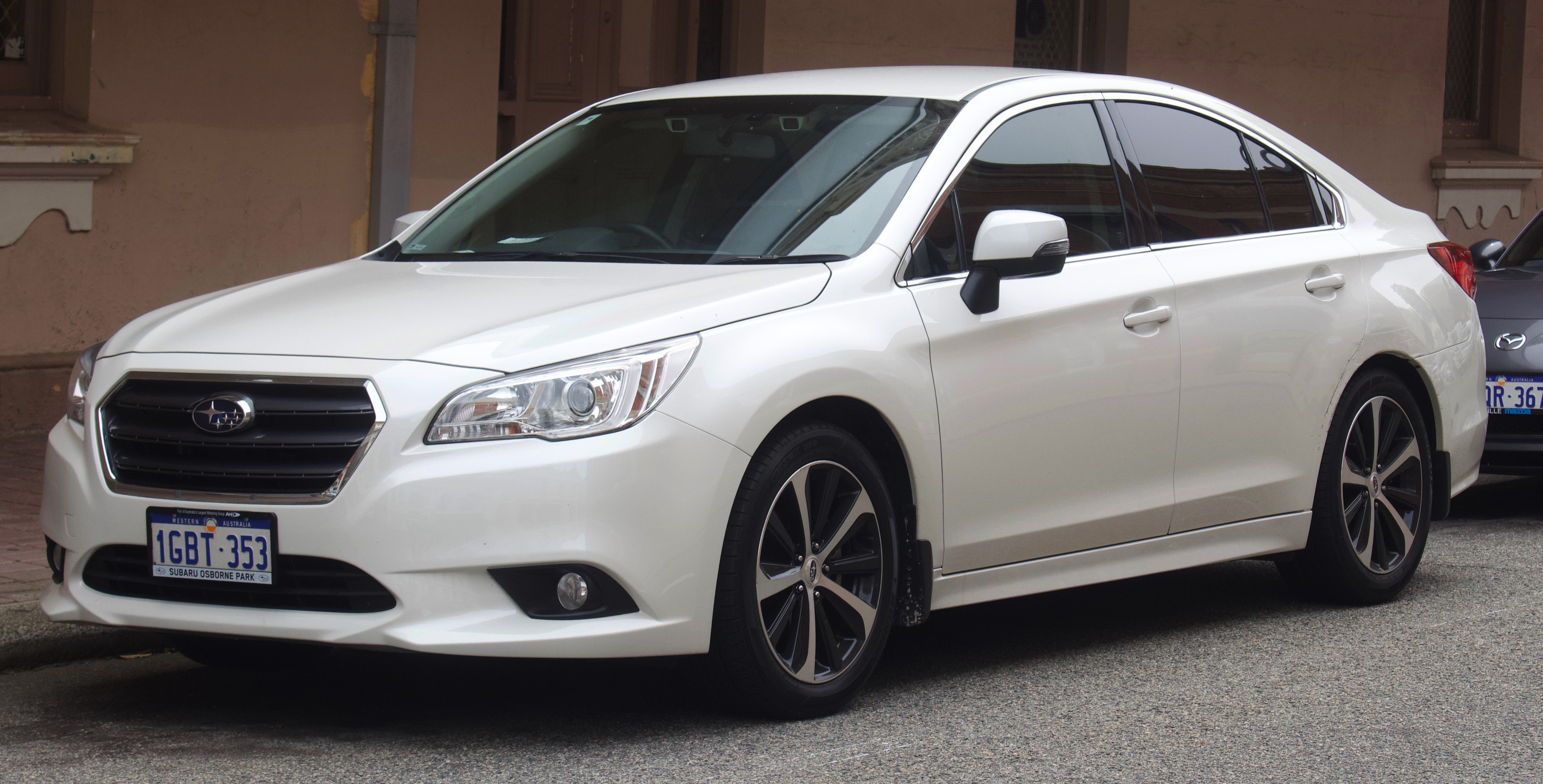 2016 Subaru Liberty (MY16) 2.5i sedan. Mind the scuff marks, they must have been there after an accident. The Liberty is one of my favourite Subarus after the Forester, Impreza and Outback. Photographed in Fremantle, Western Australia, Australia.